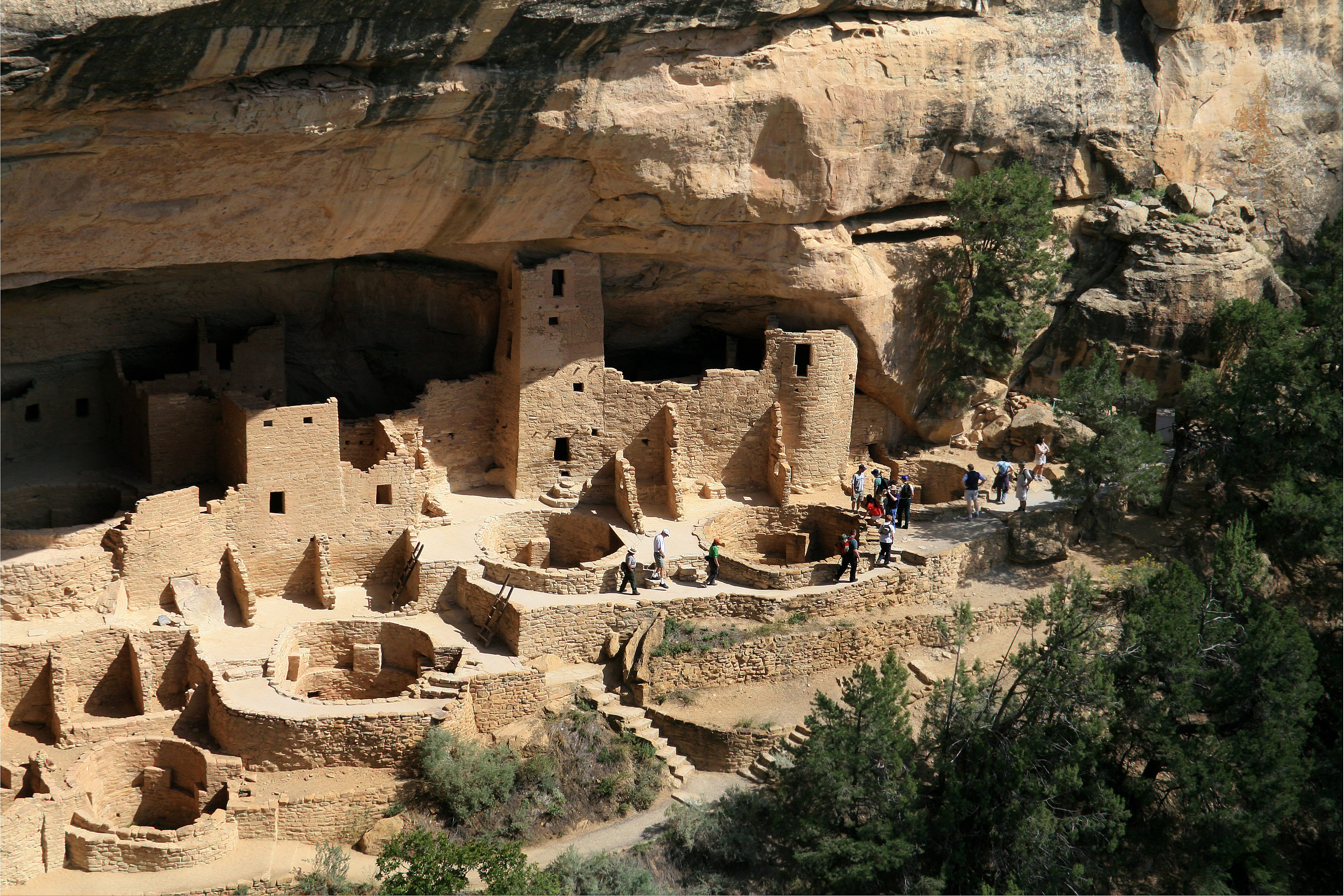 Mesa Verde National Park, Colorado Right part of the Cliff Palace. This image has been postprocessed by keninglory/ Brocken Inaglory.